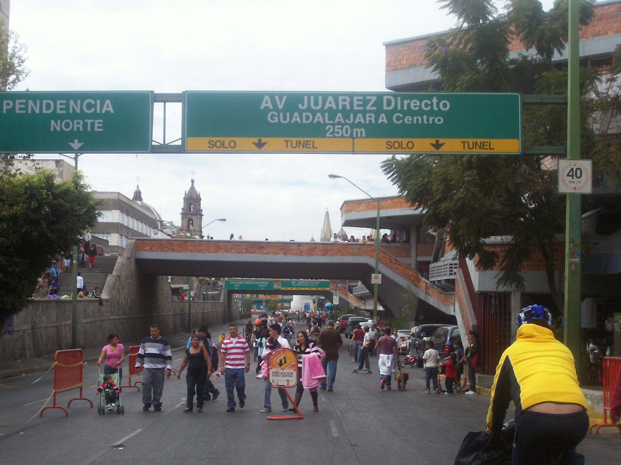 Foto de la Via recreativa de Bicicleta de Guadalajara, Jalisco